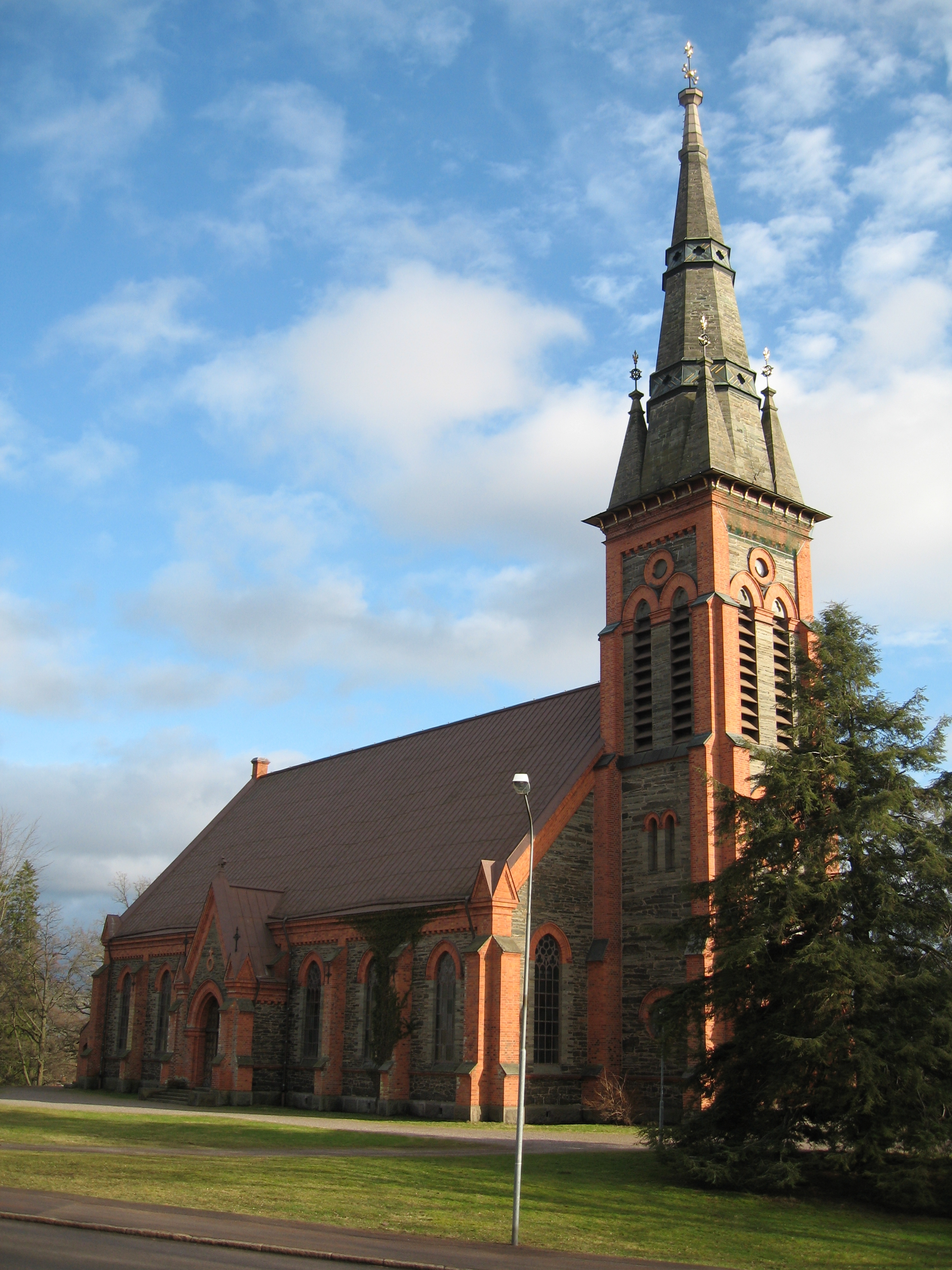 Åtvid church of Åtvid parish in Östergötland